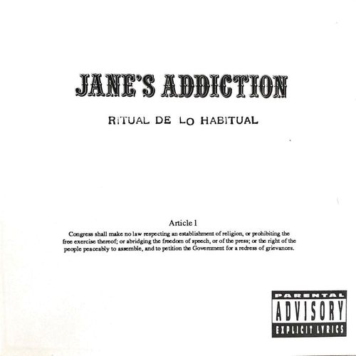 An image of the 'clean' CD cover of Ritual de lo Habitual by Jane's Addiction. The text on the cover accompanying the band and album name is the First Amendment to the United States Constitution.